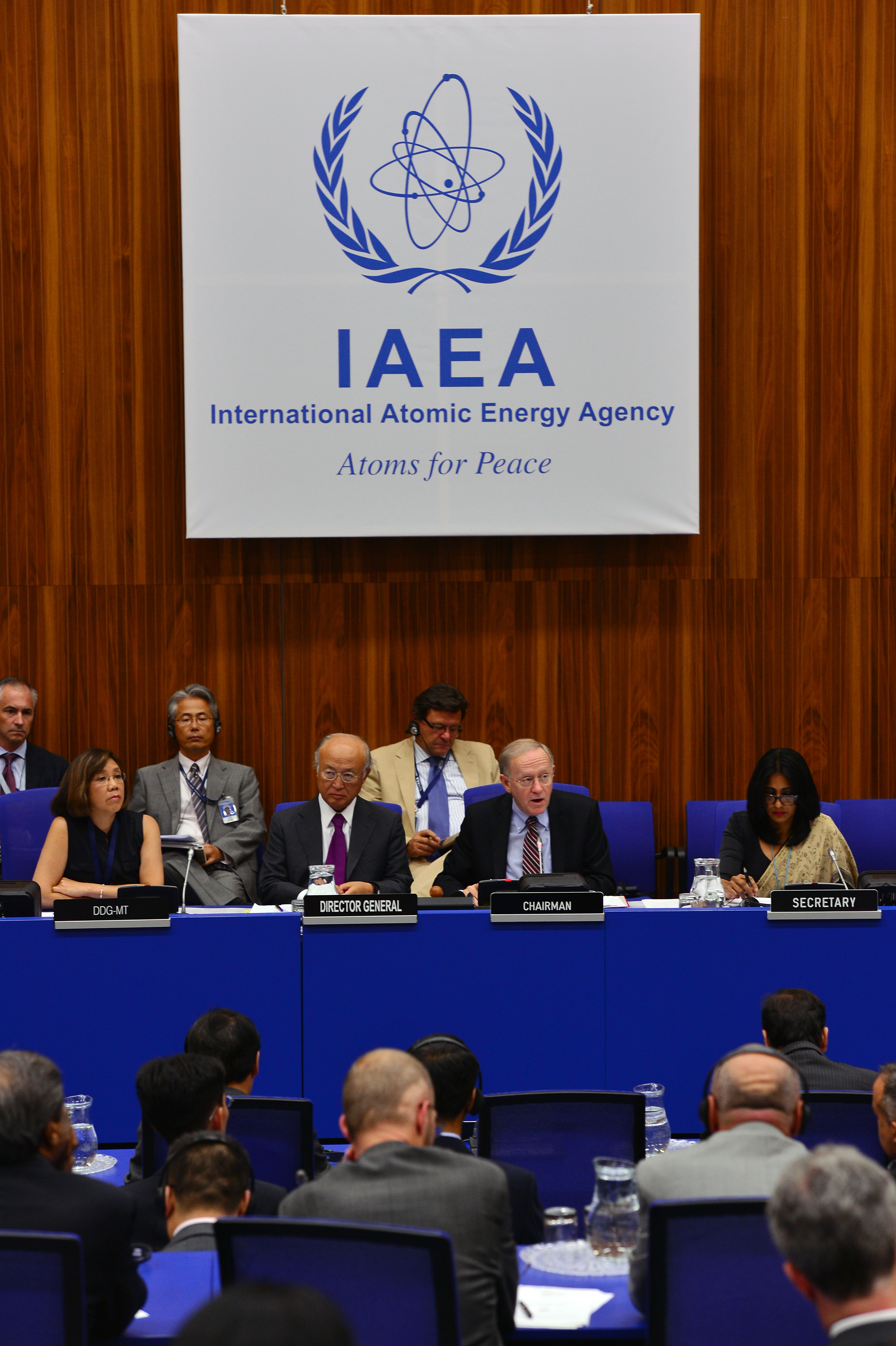 During a special session of the IAEA's 1356th Board of Governors meeting, the Board Chairperson Mr. John Barrett, (front row, second from right), welcomes Member States delegates at the IAEA Headquarters, Vienna, Austria, 31 July 2013. From left to right: Ms. Janice Dunn Lee, IAEA Deputy Director General and Head of the Department of Management, IAEA Director General Yukiya Amano, IAEA Board Chairperson John Barrett, and Ms. Aruni Wijewardane, IAEA Secretary Policy Making Organs. Photo Credit: Dean Calma / IAEA